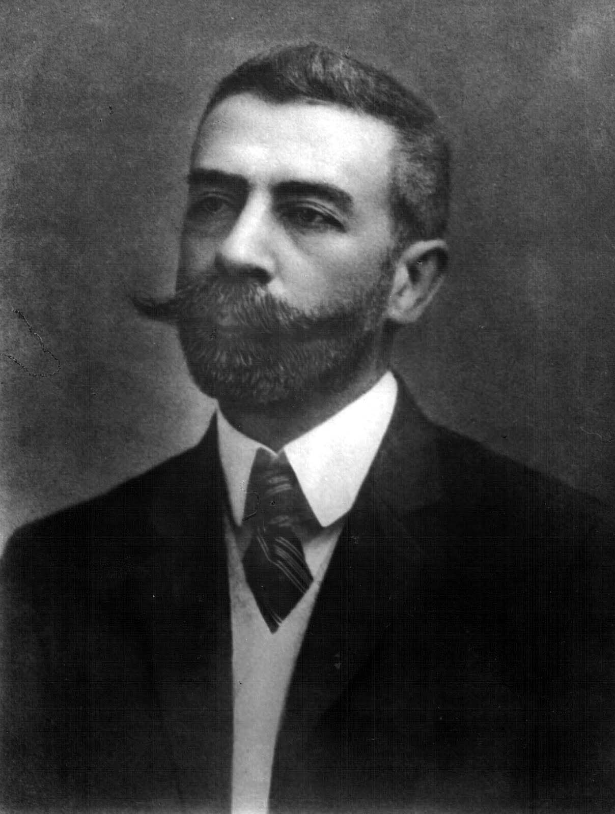 Portrait of Argentine educator, Joaquín Víctor González.